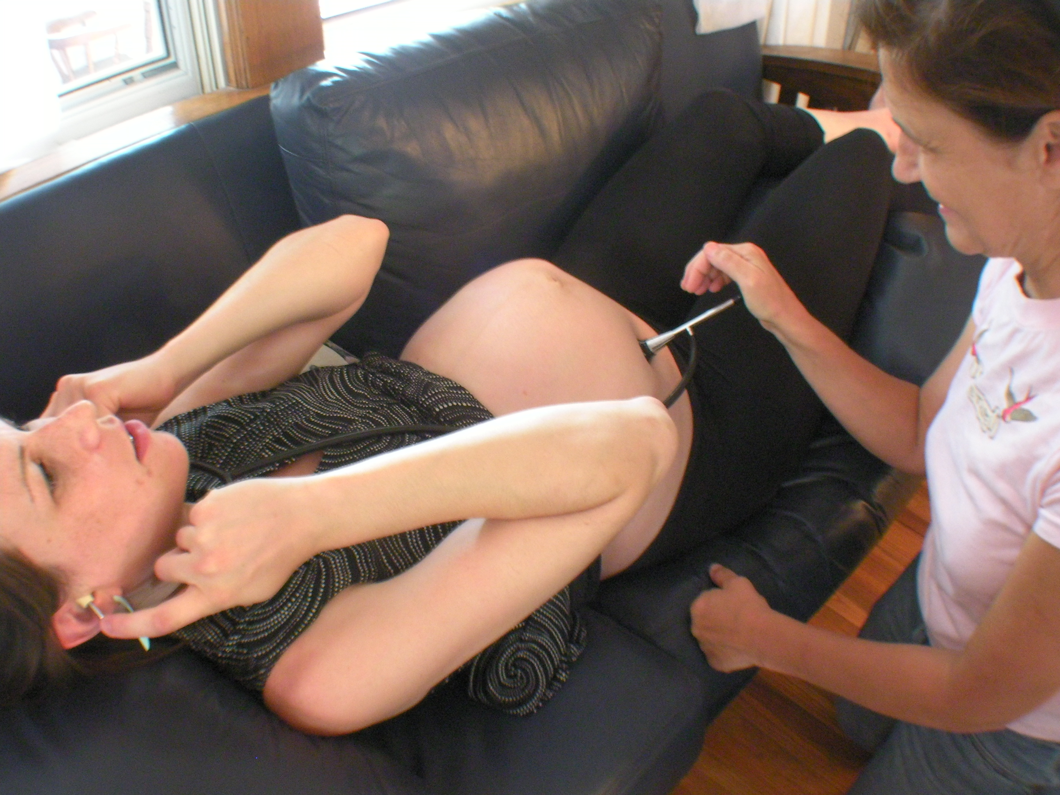 A midwife and pregnant woman